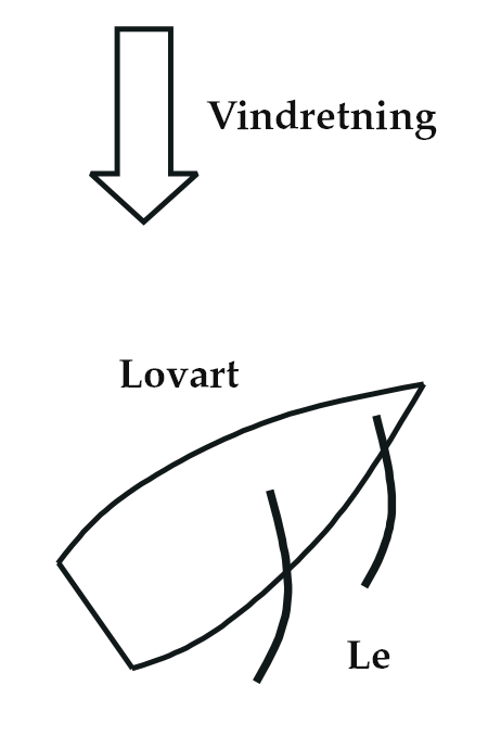 An illustration of the windward and leeward directions with Norwegian text. Date: 2006-03-18. Created by eao. This is a derivative work of Bild:Luv_und_Lee.png. The original was drawn by Benutzer:Schorschi2. It was licensed as Public Domain on the German wikipedia.